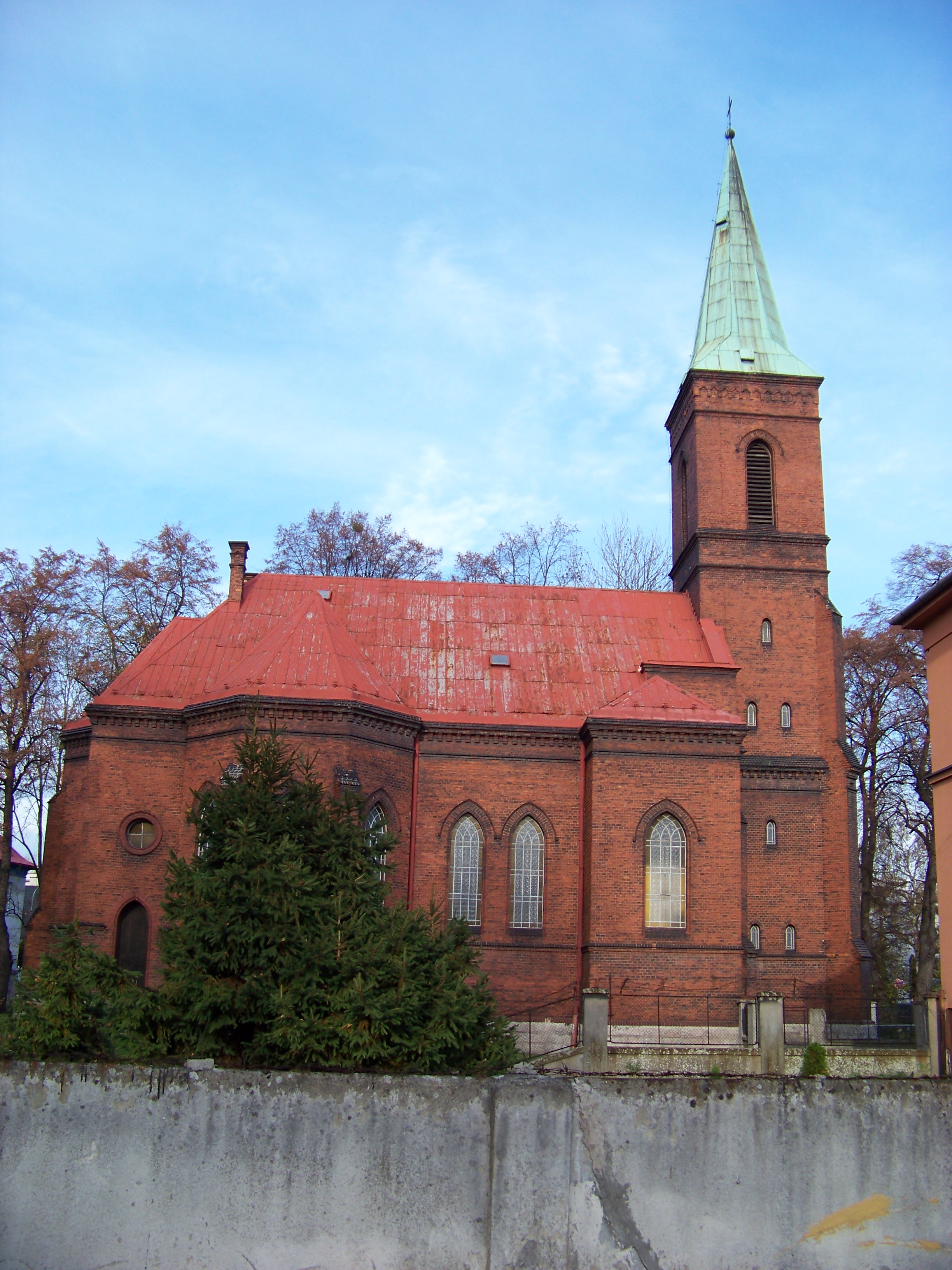 Bohumín-Nový Bohumín, Karviná District, Moravian-Silesian Region, Czech Republic. Evangelical church, from Žižkova street.